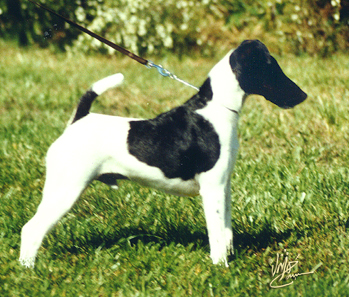 An AKC Champion Smooth Fox Terrier with Black & Tan markings. Author: Virginia M. O'Connor